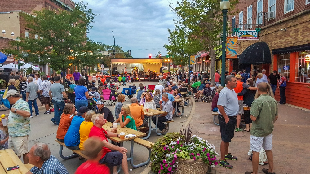 FondoFest is an after-ride celebration following the Grand Fondo endurance bicycling event in the Cedar Valley (Eastern Iowa). This picture shows Main Street in downtown Cedar Falls, looking northward from 4th Street.